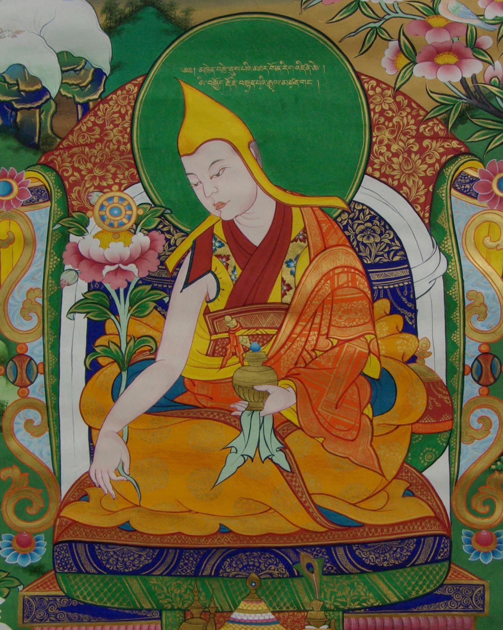 The Fifth Kirti, Lobzang Tenpai Gyeltsen b.1712 - d.1771